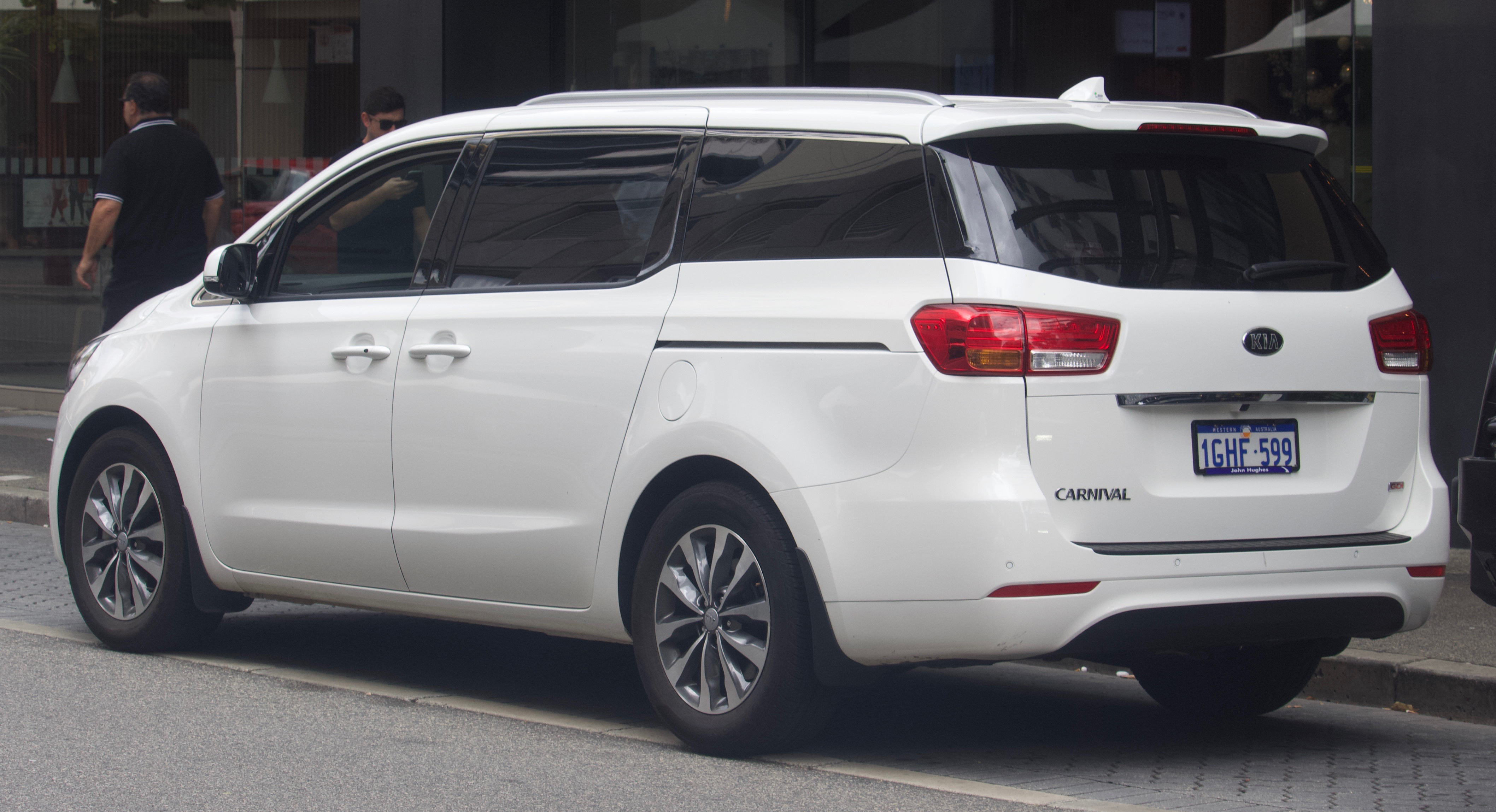 2017 Kia Carnival (YP MY17) SLi van. Photographed in Perth, Western Australia, Australia.